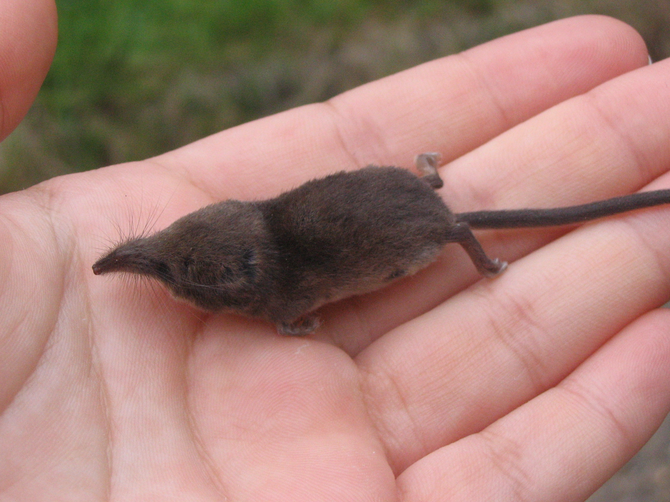 Eurasian Pygmy Shrew (Sorex minutus). Misidentified as etruscan shrew (Suncus etruscus, which has larger ears, longer hairs on the tail and different tail shape [1]).